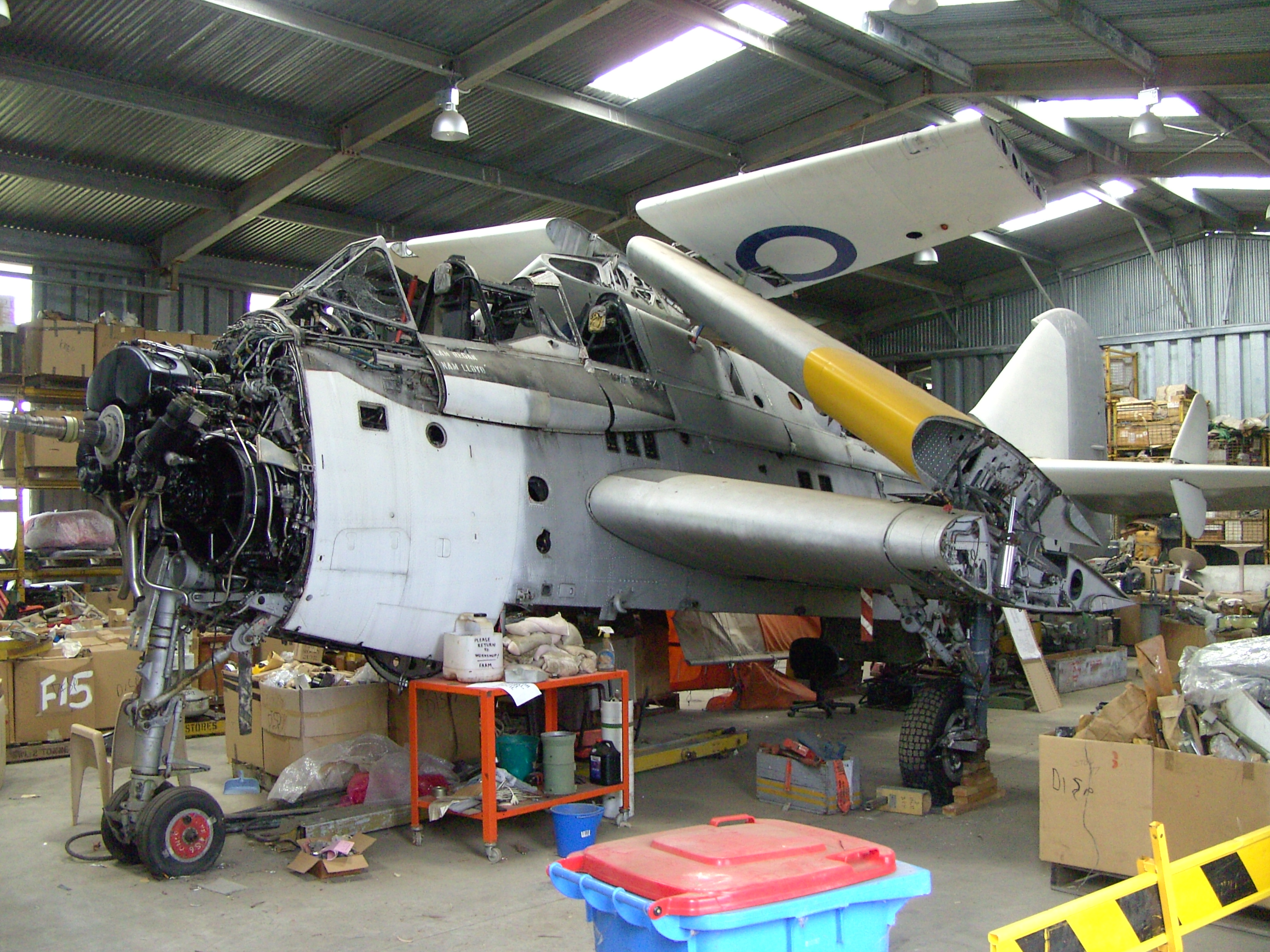 Armstrong Siddeley Double Mamba in a non-display Fairey Gannet at the Royal Australian Navy Fleet Air Arm Museum, HMAS Albatross (air station).